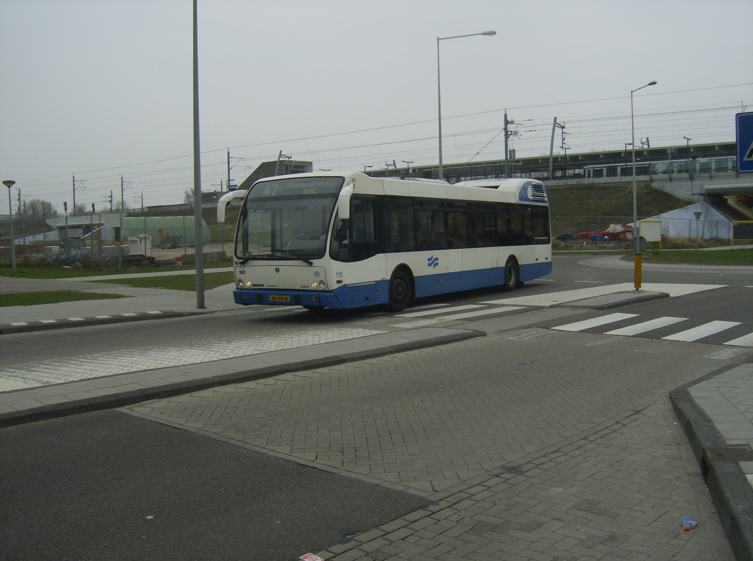 The area around Amsterdam Holendrecht. Station in background, with the bus station just behind picture. Berkhof Jonckheer 12 city bus (#118, reg. BG-VB-16) with DAF SB250 chassis in Amsterdam, Netherlands. Built 1998, Gemeentevervoerbedrijf (GVB) operator.